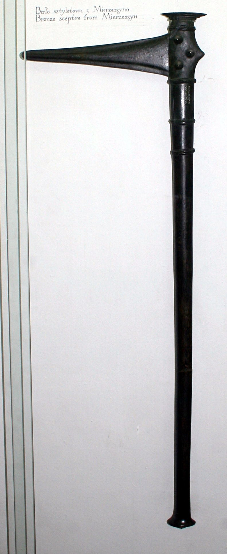 Bronze sceptre from Mierzeszyn - Archaeological Museum in Gdańsk. This photo of Kashubia, Pomerelia and Żuławy Wiślane was taken during Wikiekspedycja 2010 set up by Wikimedia Polska Association.You can see all photographs in category Wikiekspedycja 2010. The making of this document was supported by Wikimedia Polska.